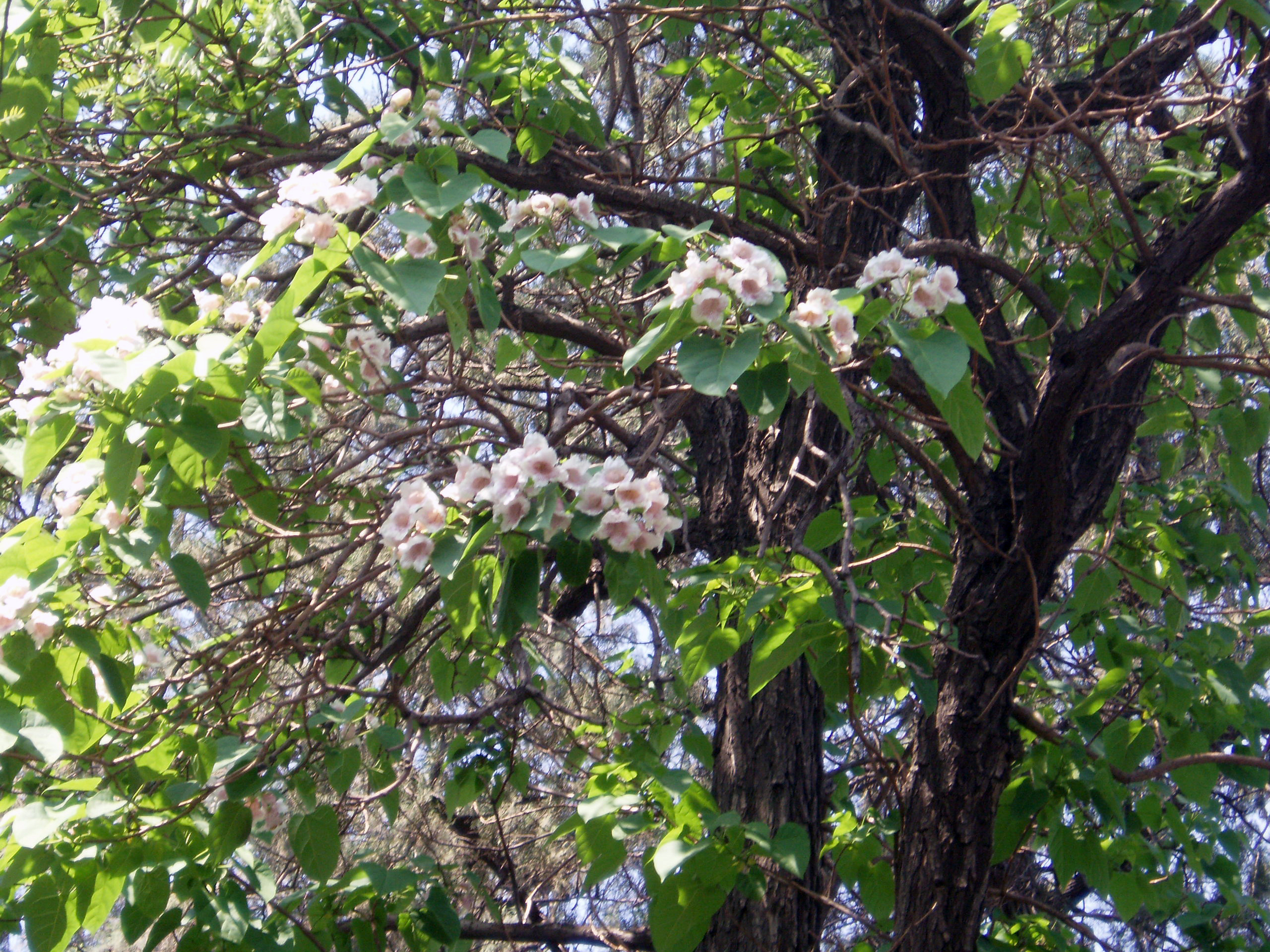 Empress tree white flowers